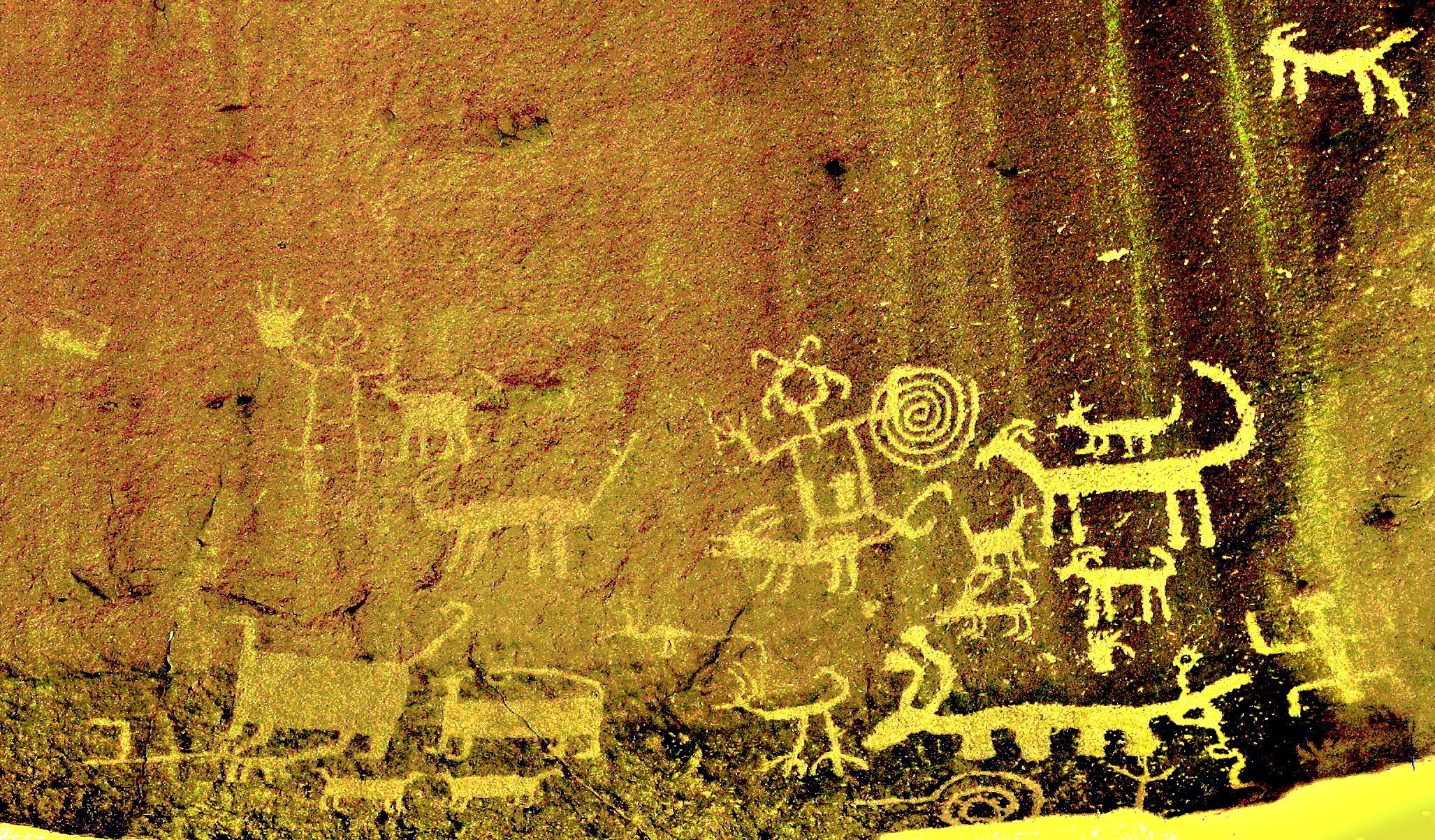 Photograph of petroglyphs taken by wvbailey, at the easily-accessible Una Vida site at Chaco Culture National Historical Park. Image enhanced by use of Canon software.Rock art shown above exhibits observe reuse (overwriting of symbols) and various artists' styles—compare the barking dog (left center) to the two rectangular dogs below it. The hand-print (center-left) and foot-print (inside rectangular body, center) are common in Puebloan art.